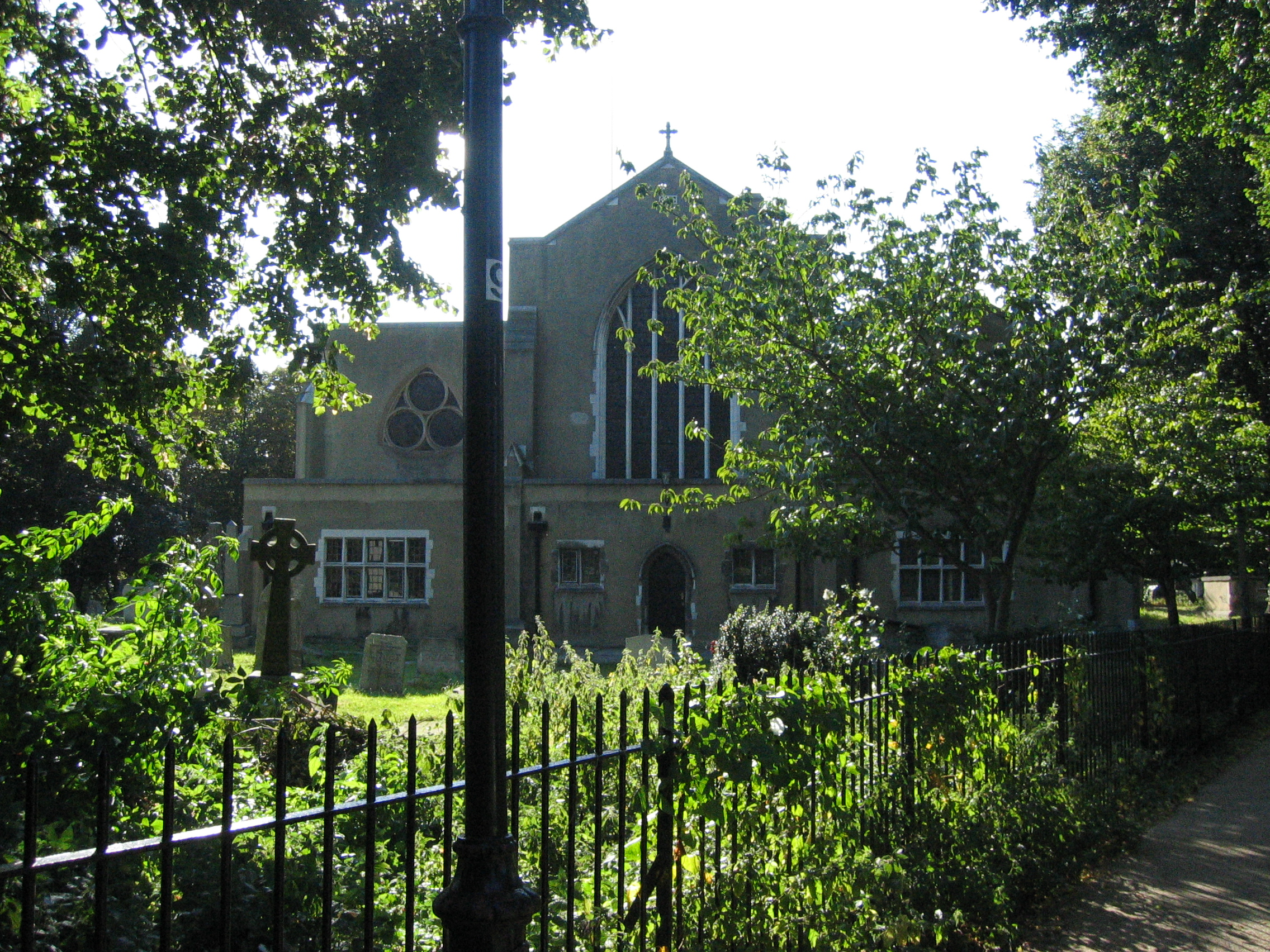 St.Mary's Church, Walthamstow, London, UK